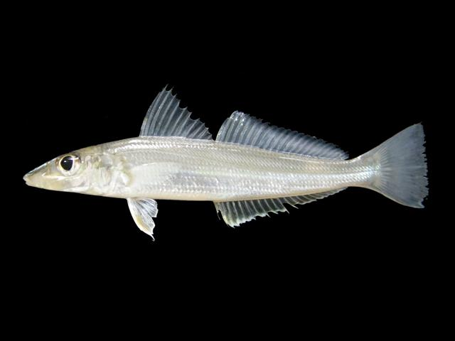 Sillago sihama collected in Kampuan mangrove forest at Amphoe Suksamran, Ranong province, southern Thailand.